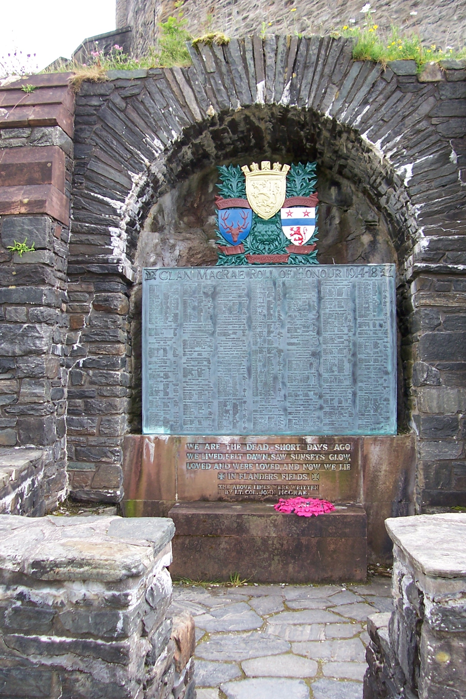 The Roll of Honour of Clan MacRae in WWI, at Eilean Donan castle, featuring a quote from clan member John McCrae's "In Flanders Fields". A wreath of poppies - also a symbol taken from the poem - rests below it.